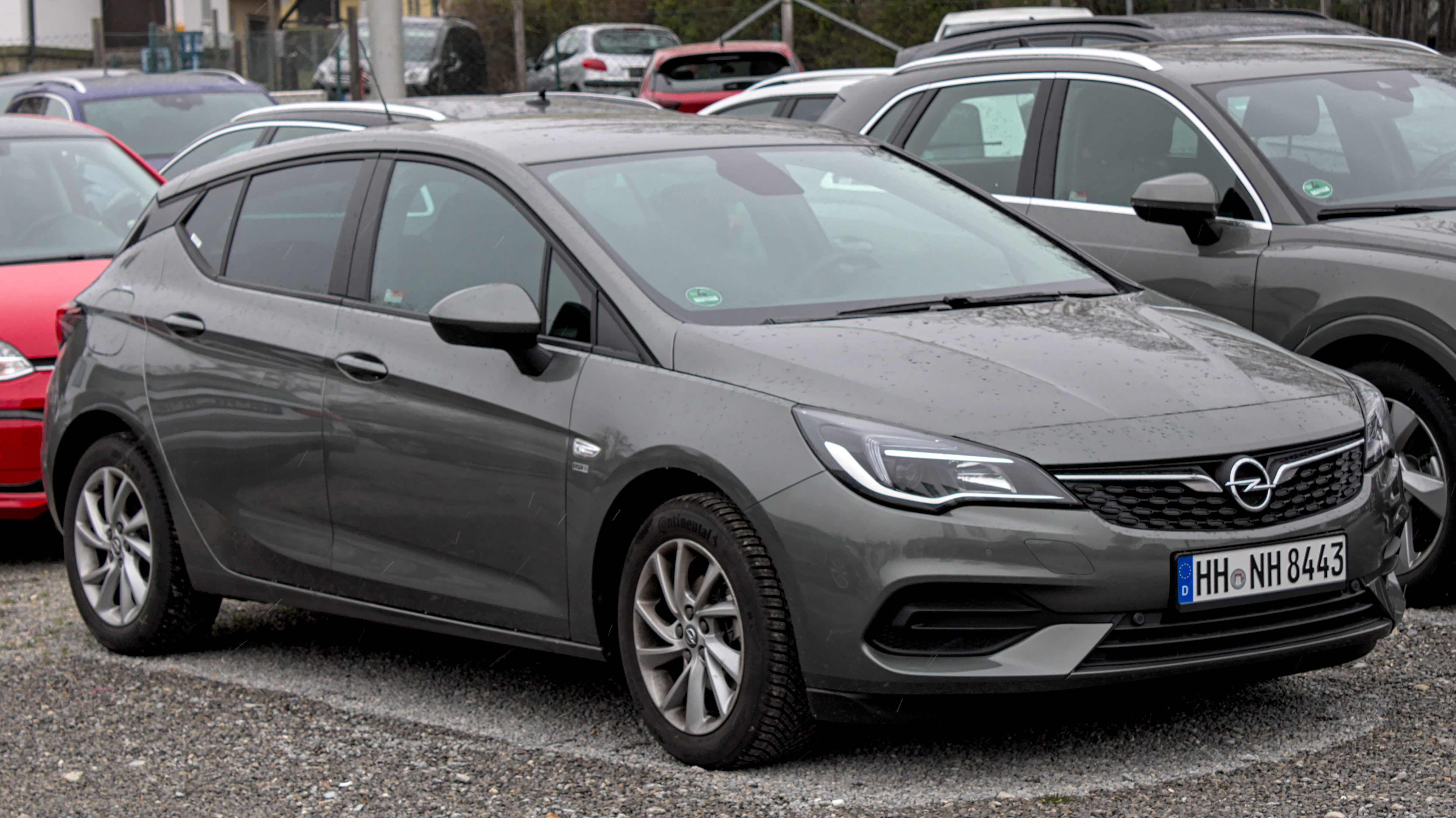 Opel_Astra_K in Stuttgart-Vaihingen